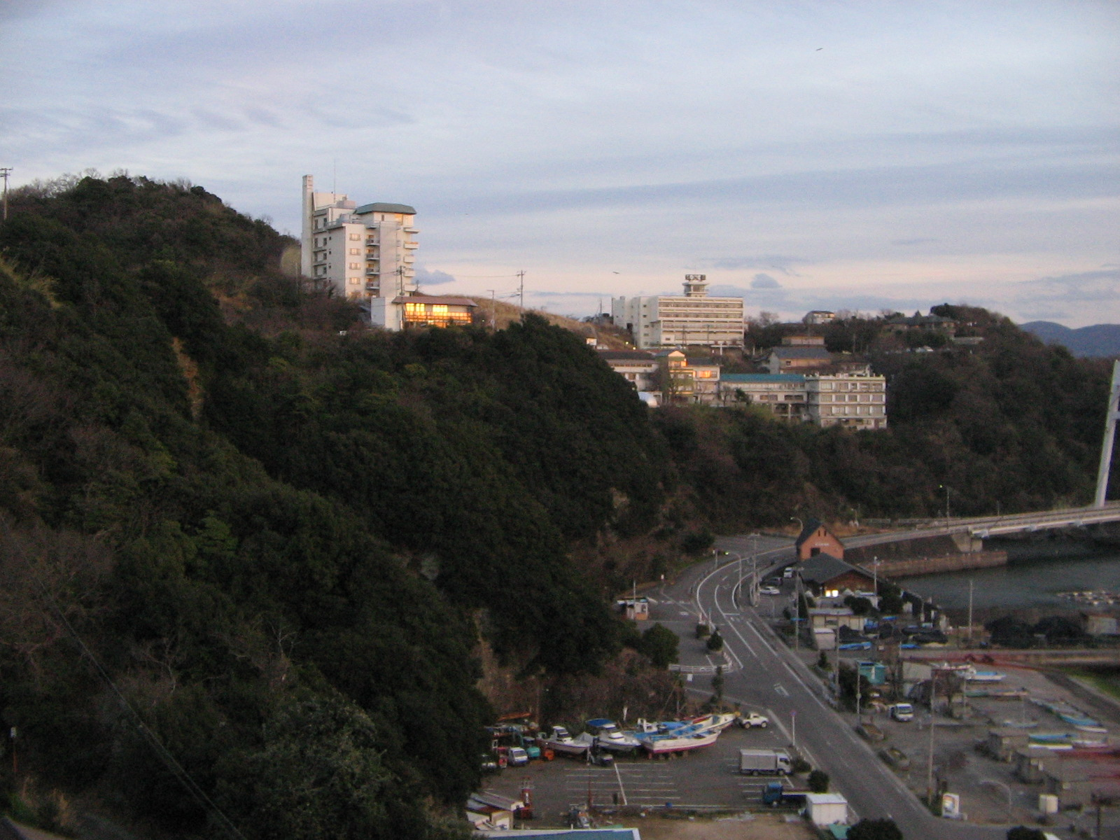 Ｗａｋａｕｒａ（Photo from Saikazaki）